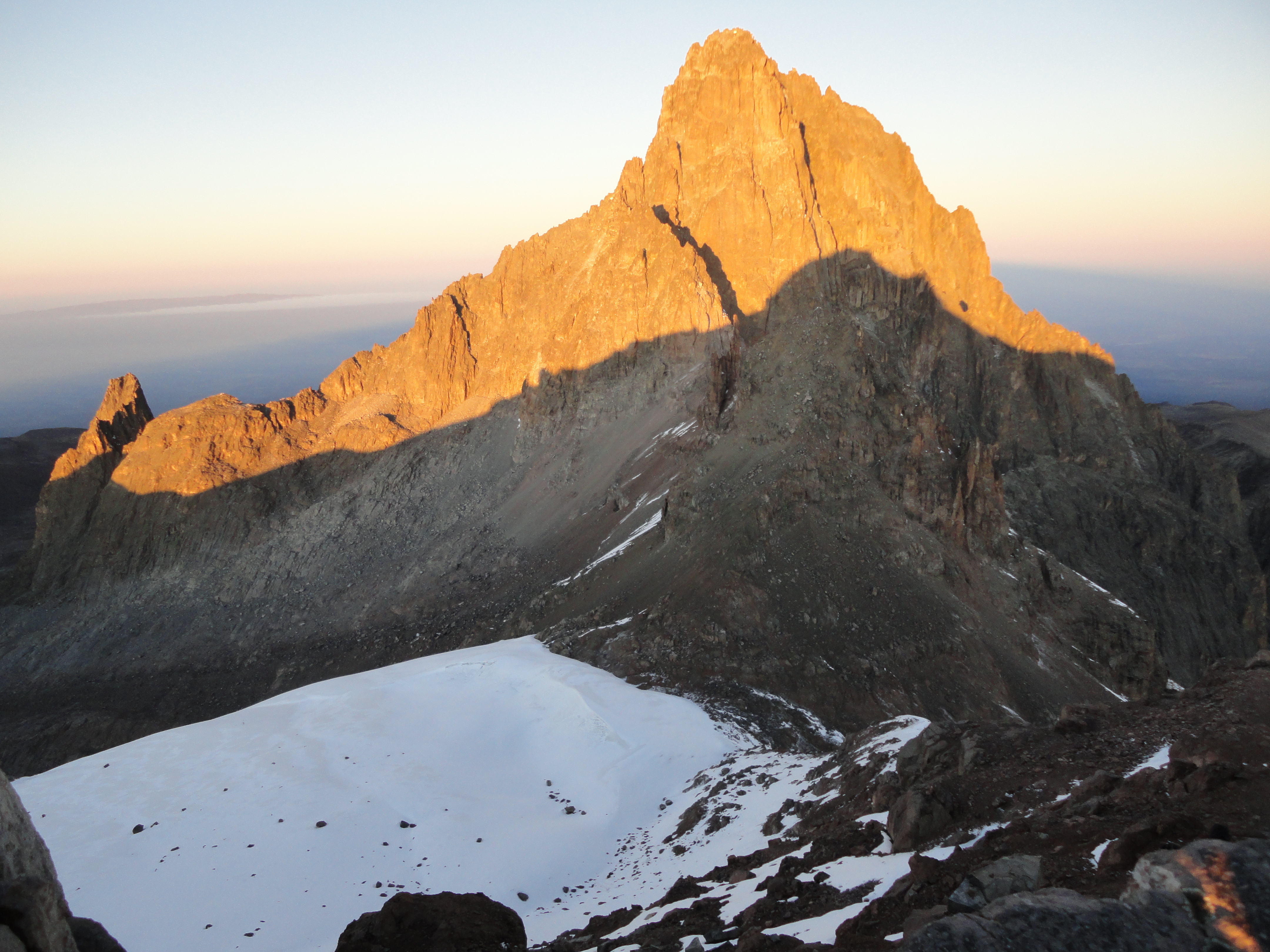 Batian Peak, the tallest peak on Mt. Kenya